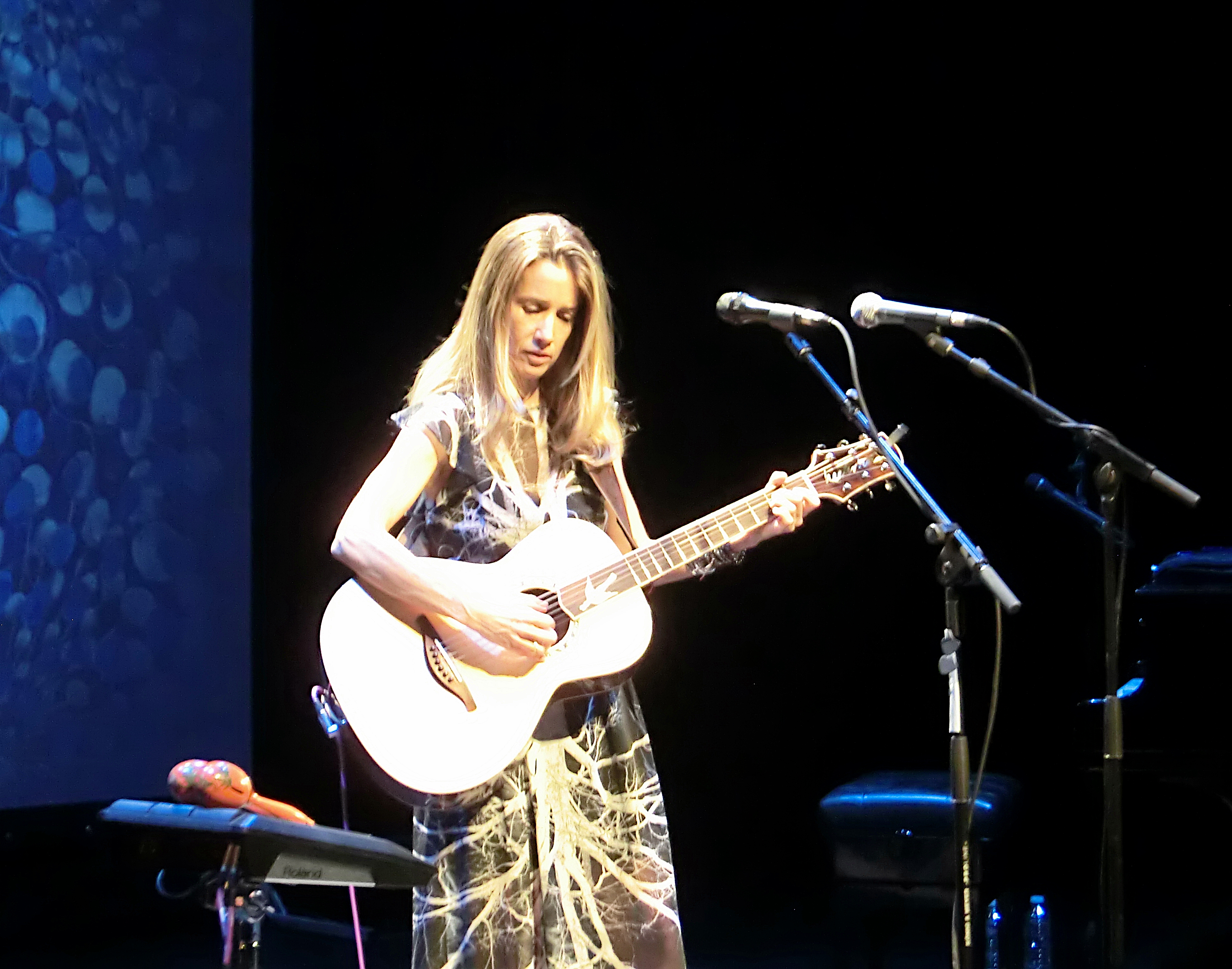 Heather Nova in concert, 2014